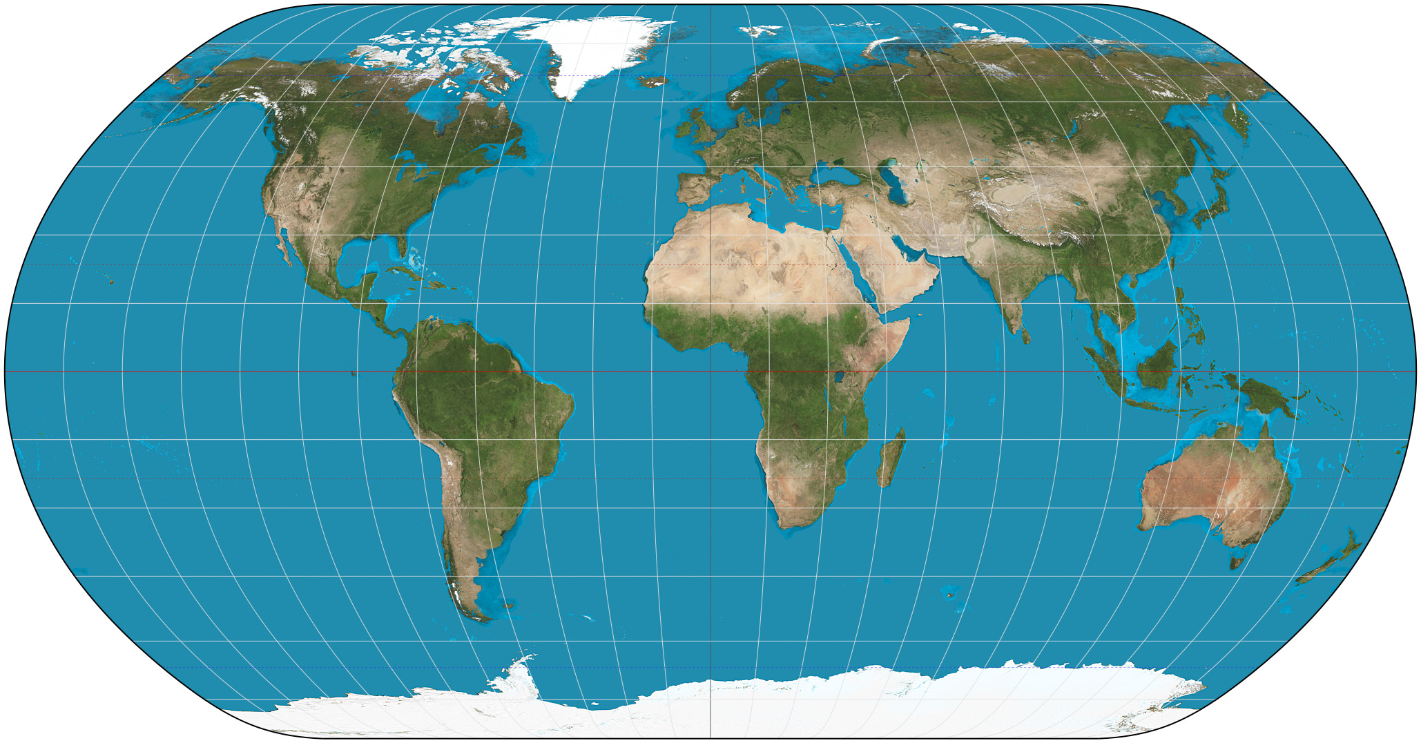 The world on the Natural Earth projection. 15° graticule. Imagery is a derivative of NASA Earth Observatory’s Blue Marble summer month composite with oceans lightened to enhance legibility and contrast. Image created with the Geocart map projection software.